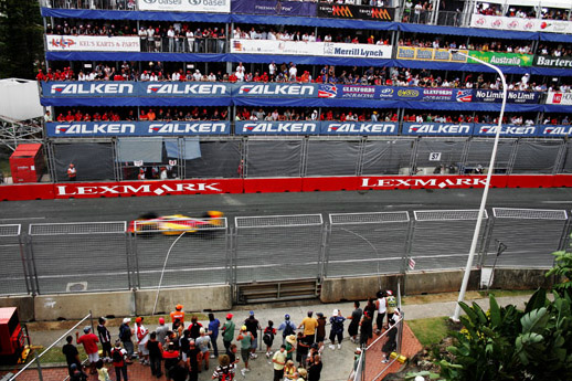 Lexmark Indy track with crowd